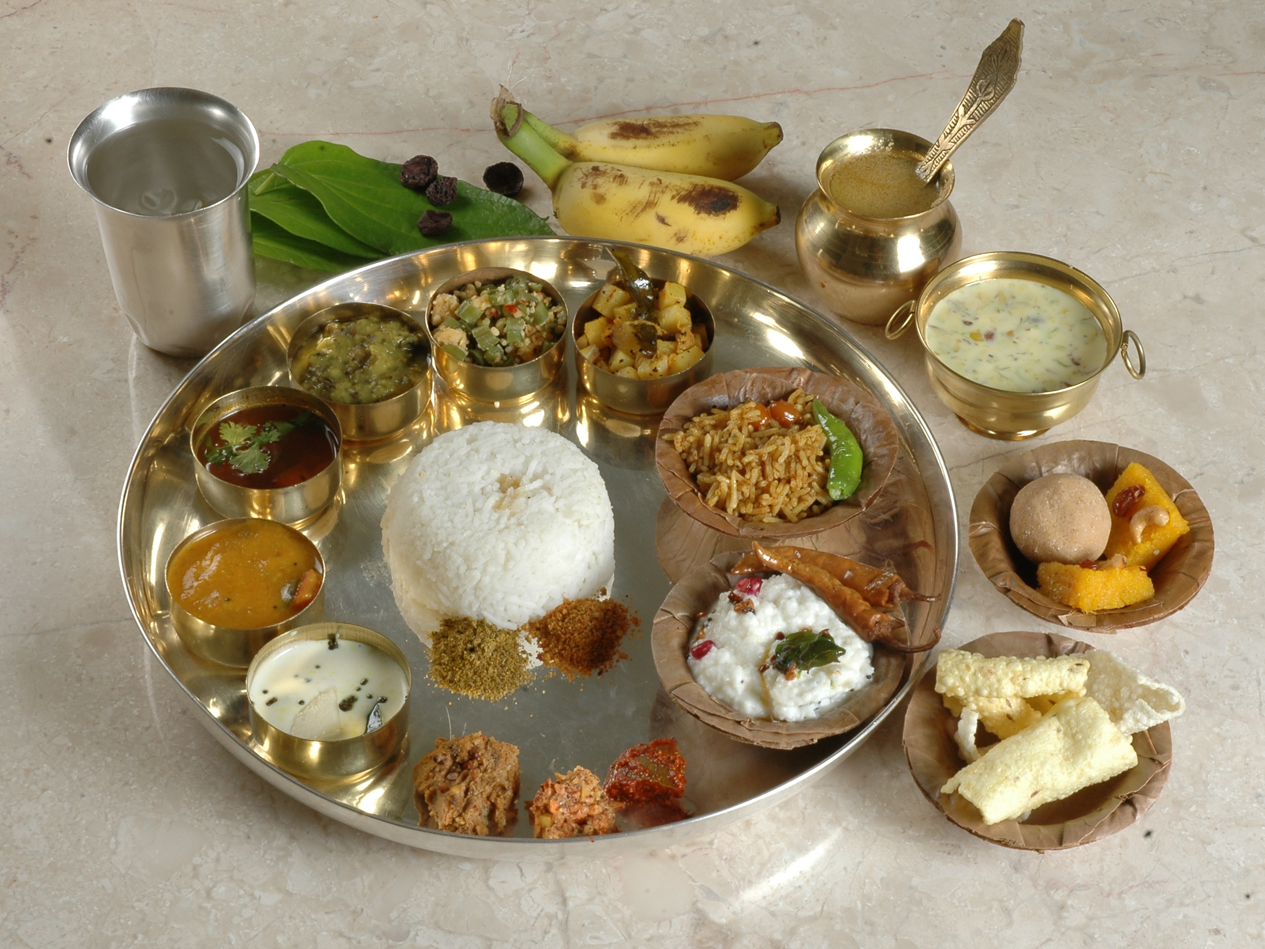 Image of food of regional Indian Cuisine (Telugu) from the state of Andhra Pradesh.